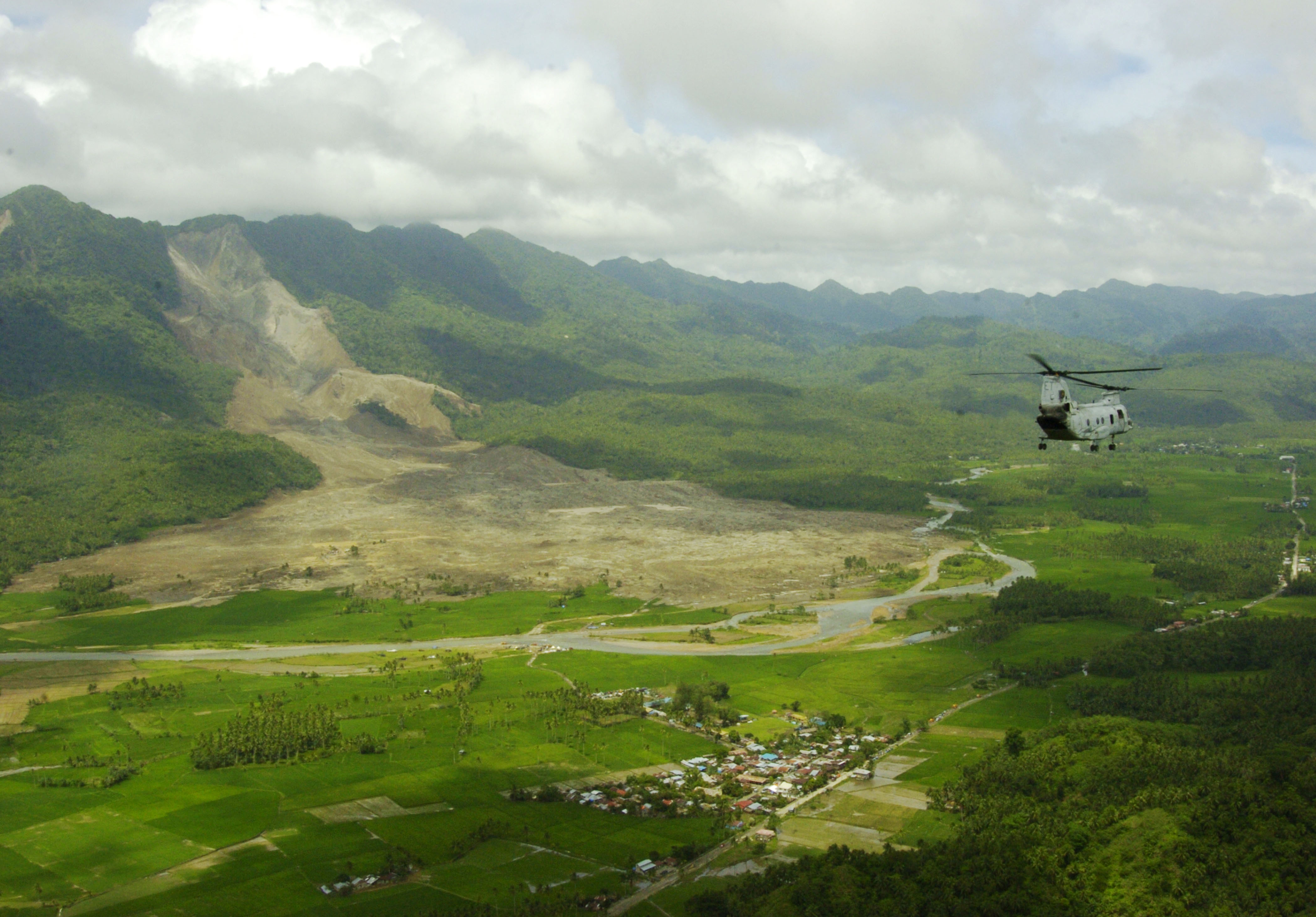 Saint Bernard, Republic of the Philippines (Feb. 19, 2006) - A CH-46E Sea Knight from the Flying Tigers of Marine Medium Helicopter Squadron 262 (HMM-262) makes an aerial assessment of the deadly Feb. 17 landslide during over-flight of the area. HMM-262 is embarked aboard the amphibious assault ship USS Essex (LHD 2). Essex along with the dock landing ship USS Harpers Ferry (LSD 49) are on station off the Philippine coast rendering relief and assistance to the victims of the landslide. Both are part of the Forward Deployed Amphibious Ready Group, the Navy’s only forward-deployed amphibious force, homeported in Sasebo, Japan. U.S. Navy Photo by Photographer's Mate 1st Class Michael D. Kennedy (RELEASED)